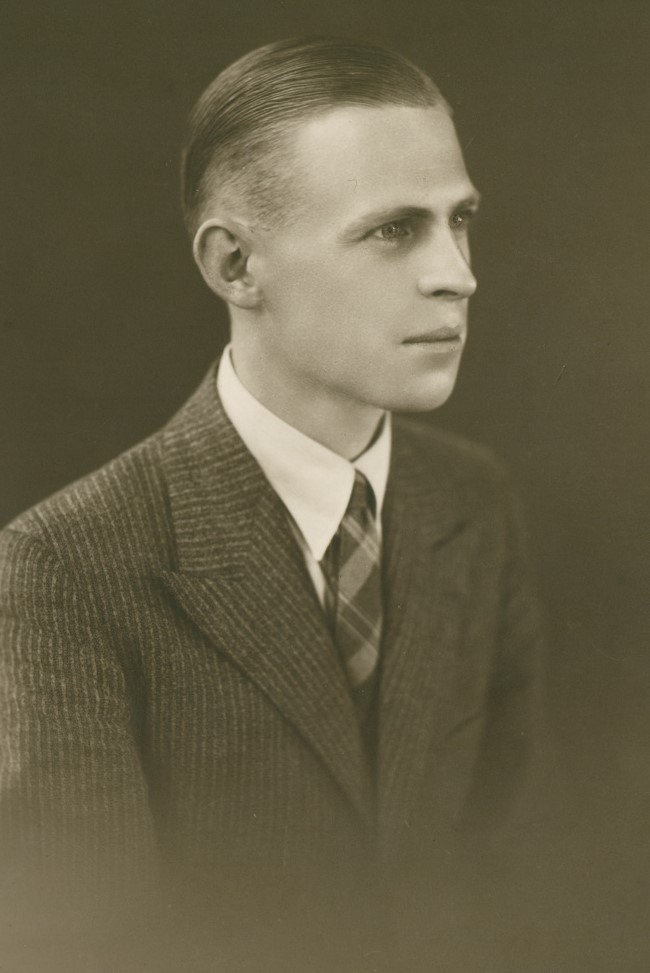 Portrait of Rex Ingamells.